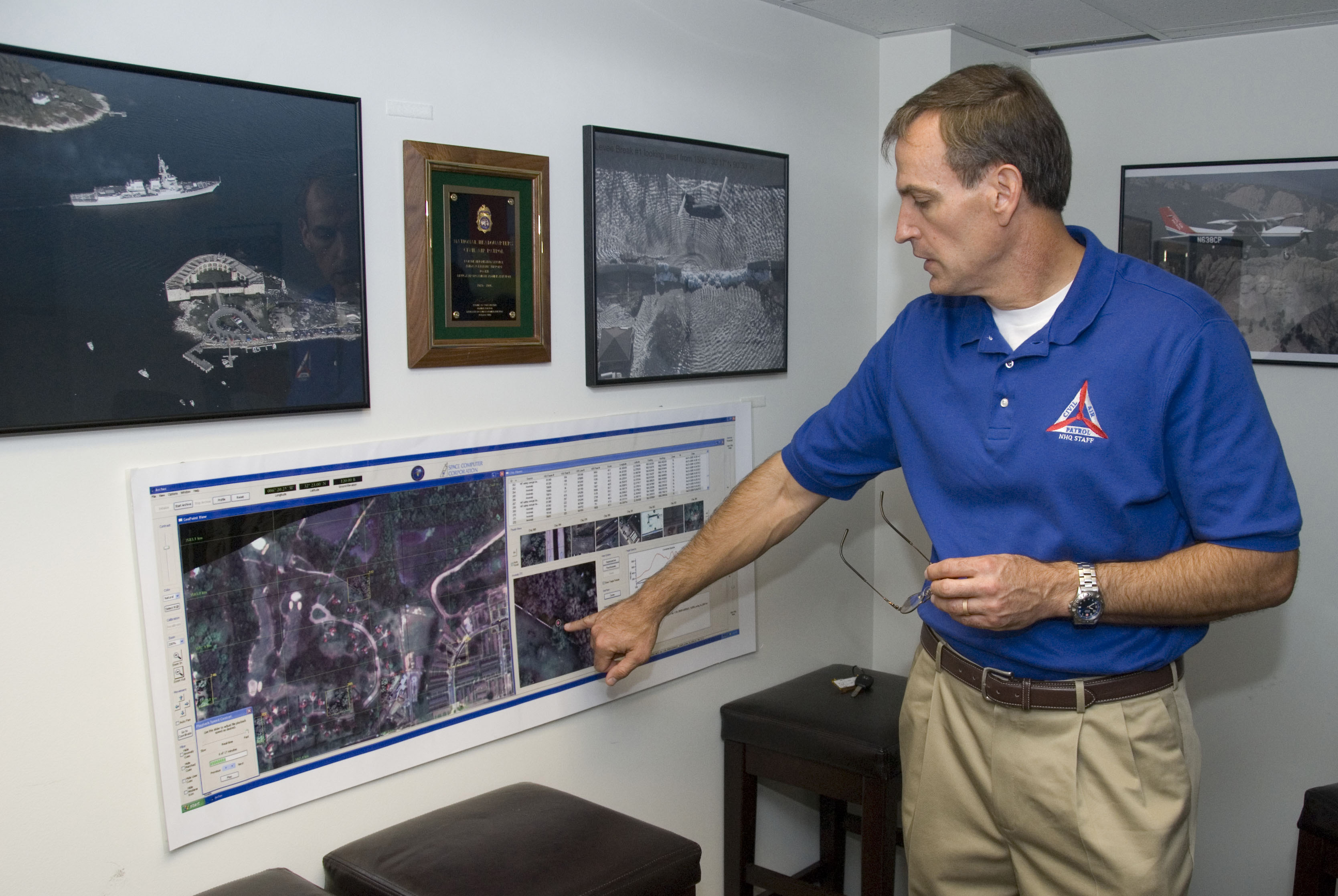 John Salvador, Civil Air Patrol's director of operations, describes the image capabilities of the Airborne Real-Time Cueing Hyperspectral Enhanced Reconnaissance system at the CAP National Operations Center here Sept. 16. The system is used to conduct aerial surveys for rescue missions. (Air Force photo by Jamie Pitcher)